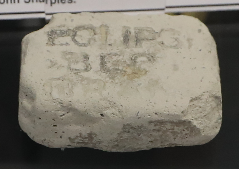 Photo of a white donkey stone